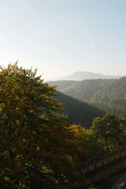 Description: View from Helfenburk Castle in Central Bohemia, Czech Republic Source: My own work Author: Bernd Janning, Date: 15.10.2005